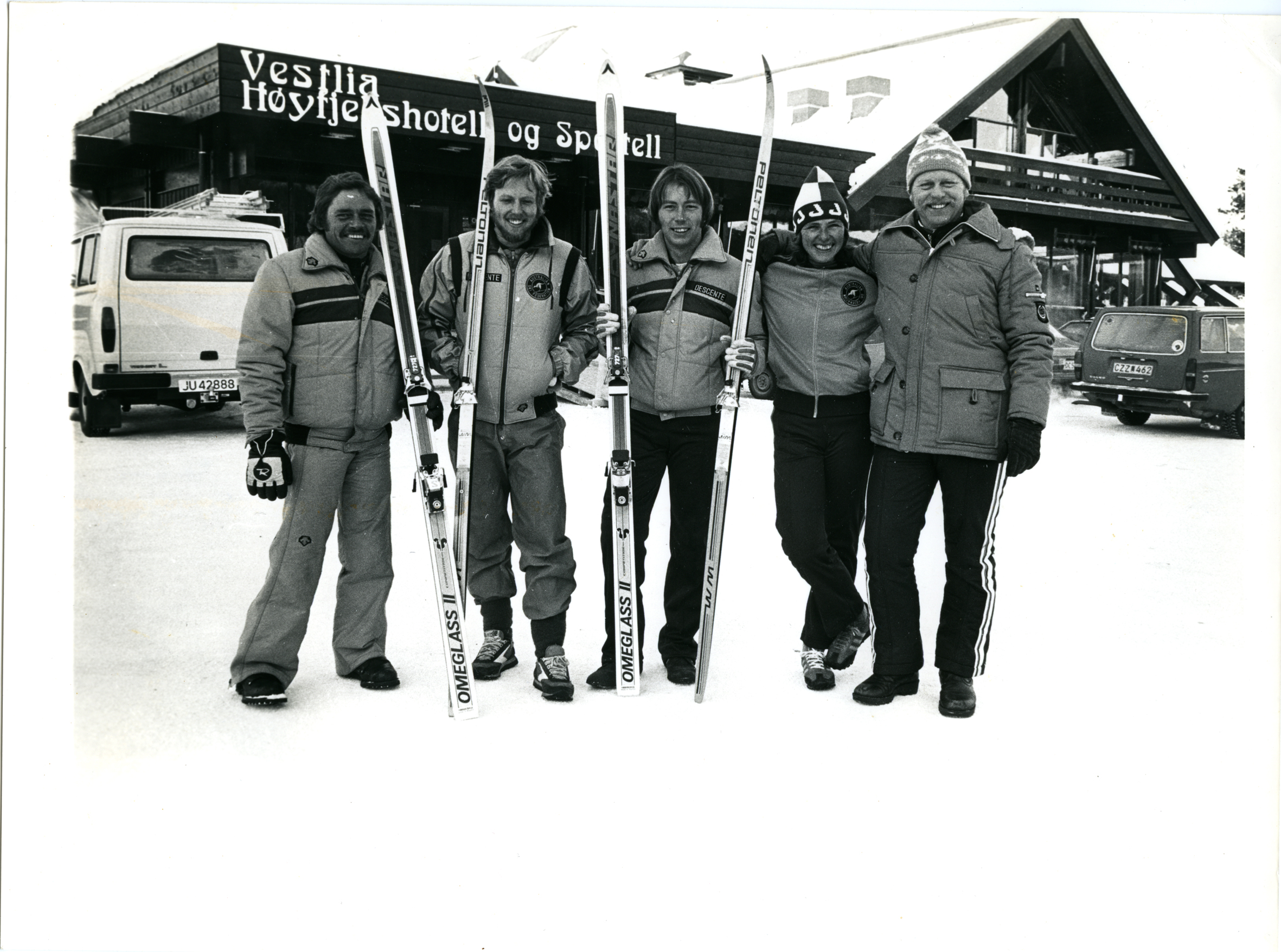 Ron Finneran, Peter Rickards, Kyrra Grunnsund, J. Rickards, Kjell Blongvist at the 1980 Geilo Olympic Winter Games for the Disabled